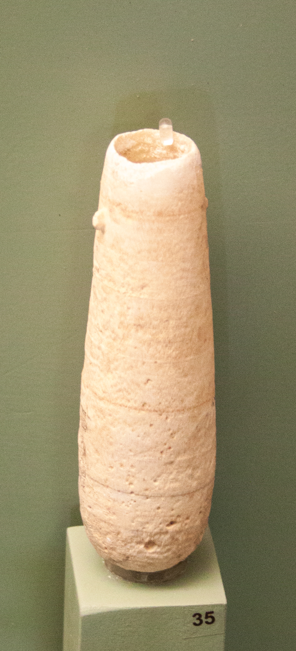 Alabastron in the Archaeological Museum of Rhodes